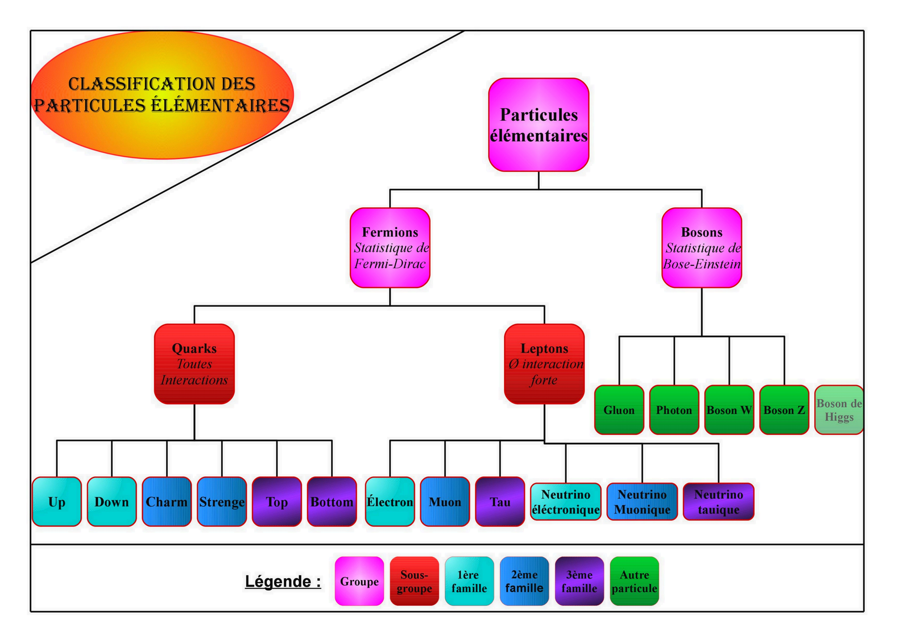 A schema that lists and classifies the elementary particles